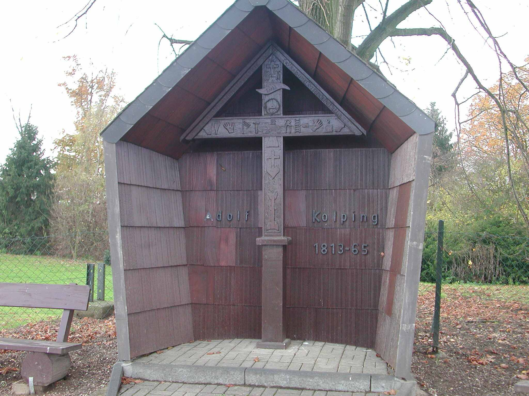 Passionskreuz an Gut Ving, Nörvenich-Wissersheim own work papa1234 2004-03-17